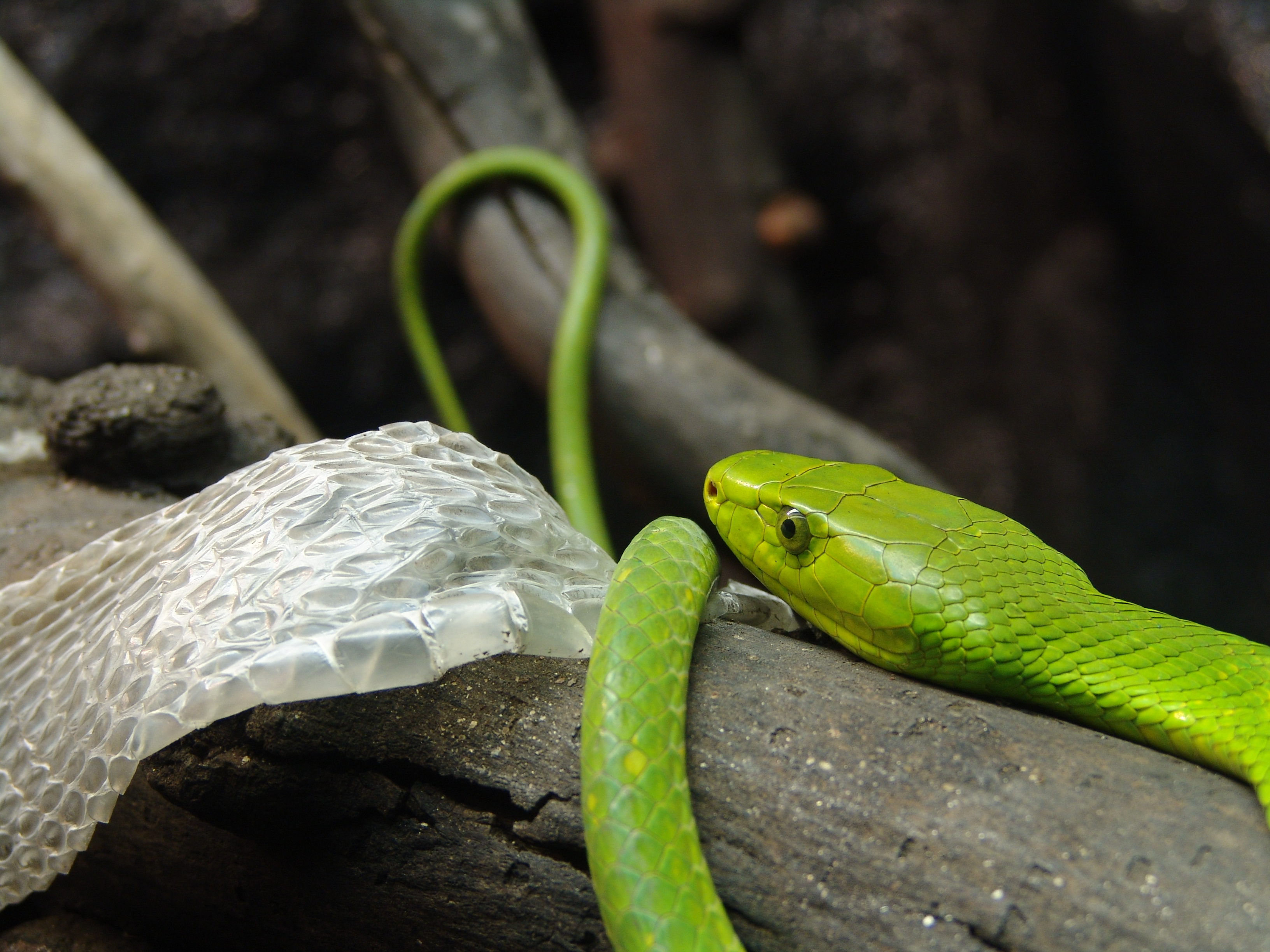 Eastern green mamba at Wilmington's Serpentarium. I took the picture.